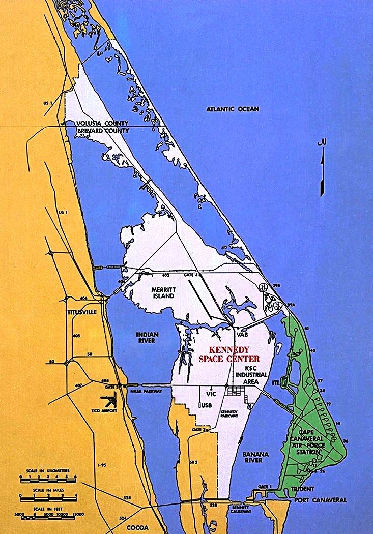 Merritt Island, Florida, with Kennedy Space Centerand Cape Canaveral Air Force Station.